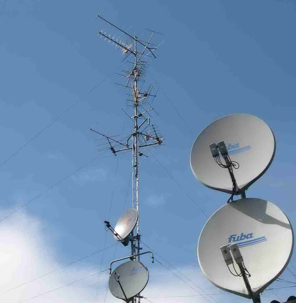 A pair of satellite television antennas (right), and a communications tower (left) with two satellite television antennas and above them a variety of Yagi television antennas.